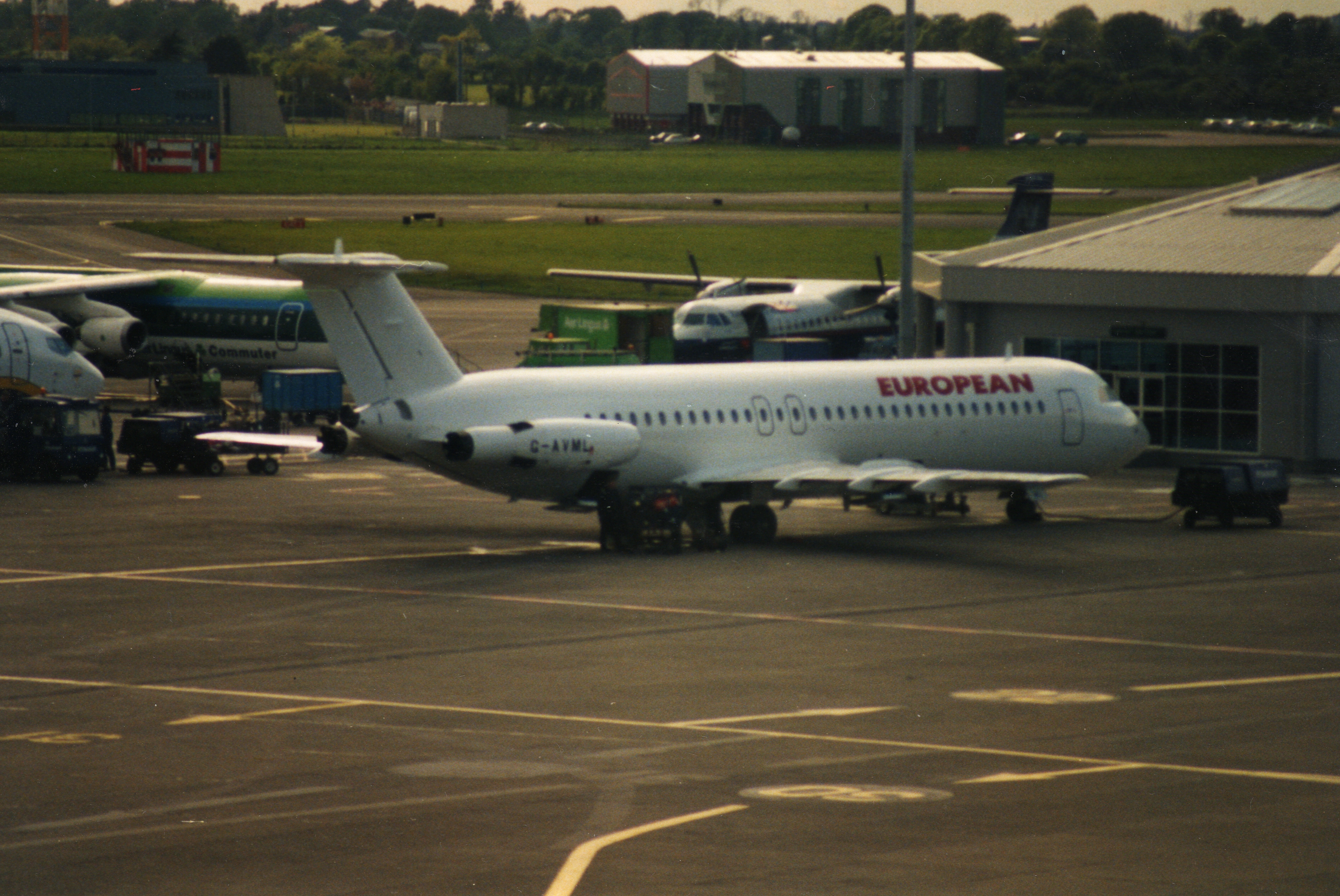 European Aviation (G-AVML) BAC 1-11 aircraft, Dublin Airport, Dublin, Republic of Ireland, July 1994